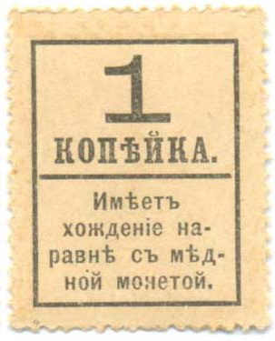 Stamp money of Russia, 1917